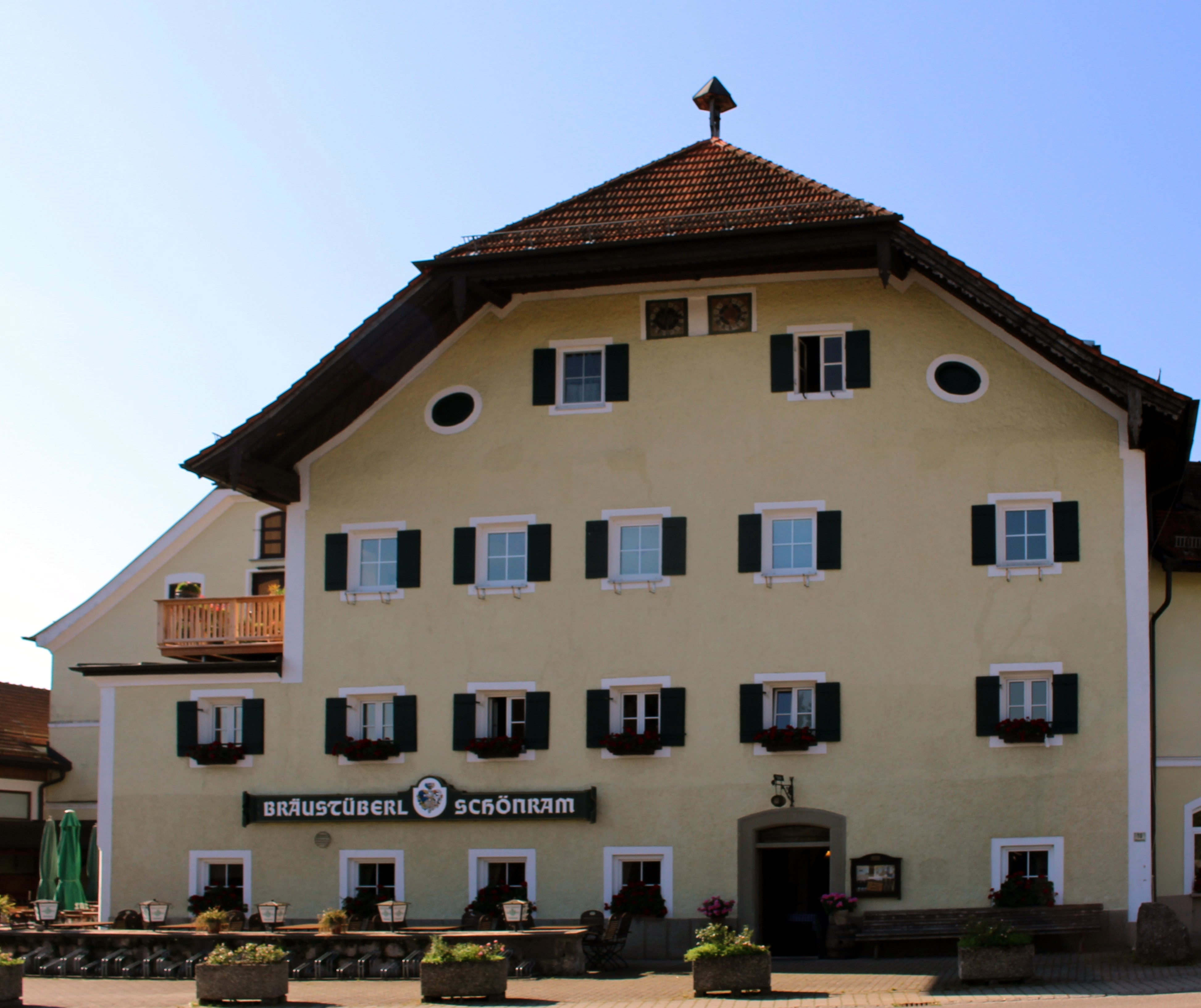 This is a photograph of an architectural monument.